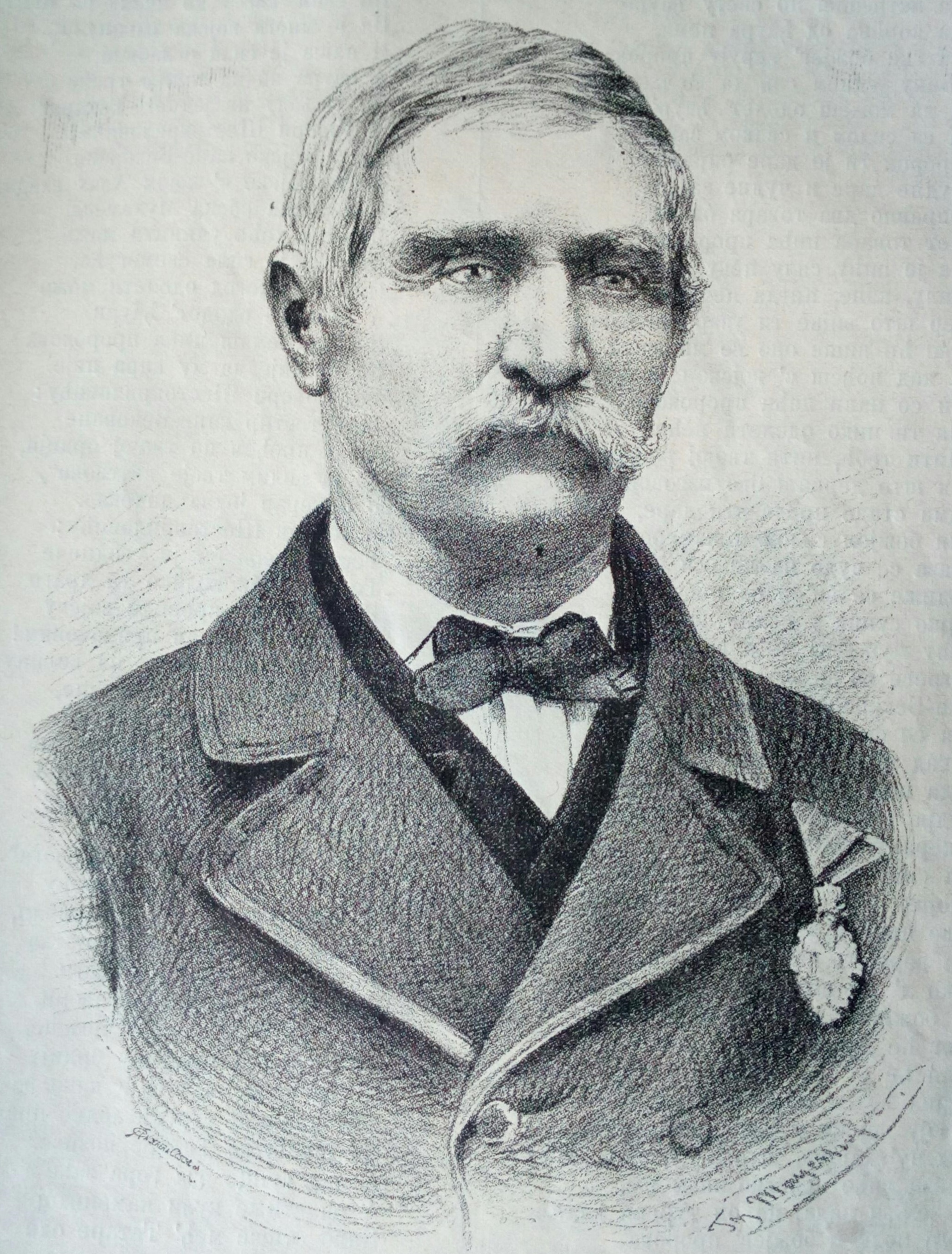 Gedeon Geca Dunđerski (1807-1883), Serbian merchant and benefactor. Taken from the 1881 edition of the Veliki srpski narodni ilustrovani kalendar Godišnjak. Srpski (latinica): Gedeon Geca Dunđerski (1807-1883), srpski trgovac i dobrotvor. Preuzeto iz izdanja Velikog srpskog narodnog ilustrovanog kalendara Godišnjak za 1881. godinu.